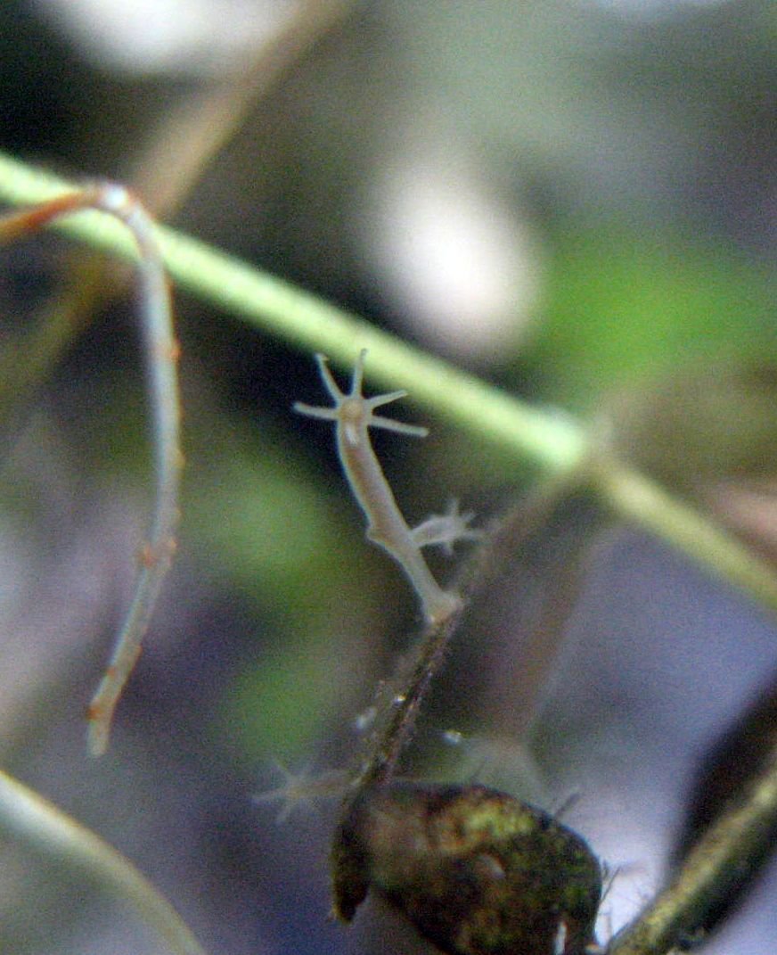 Hydra sp. 2010